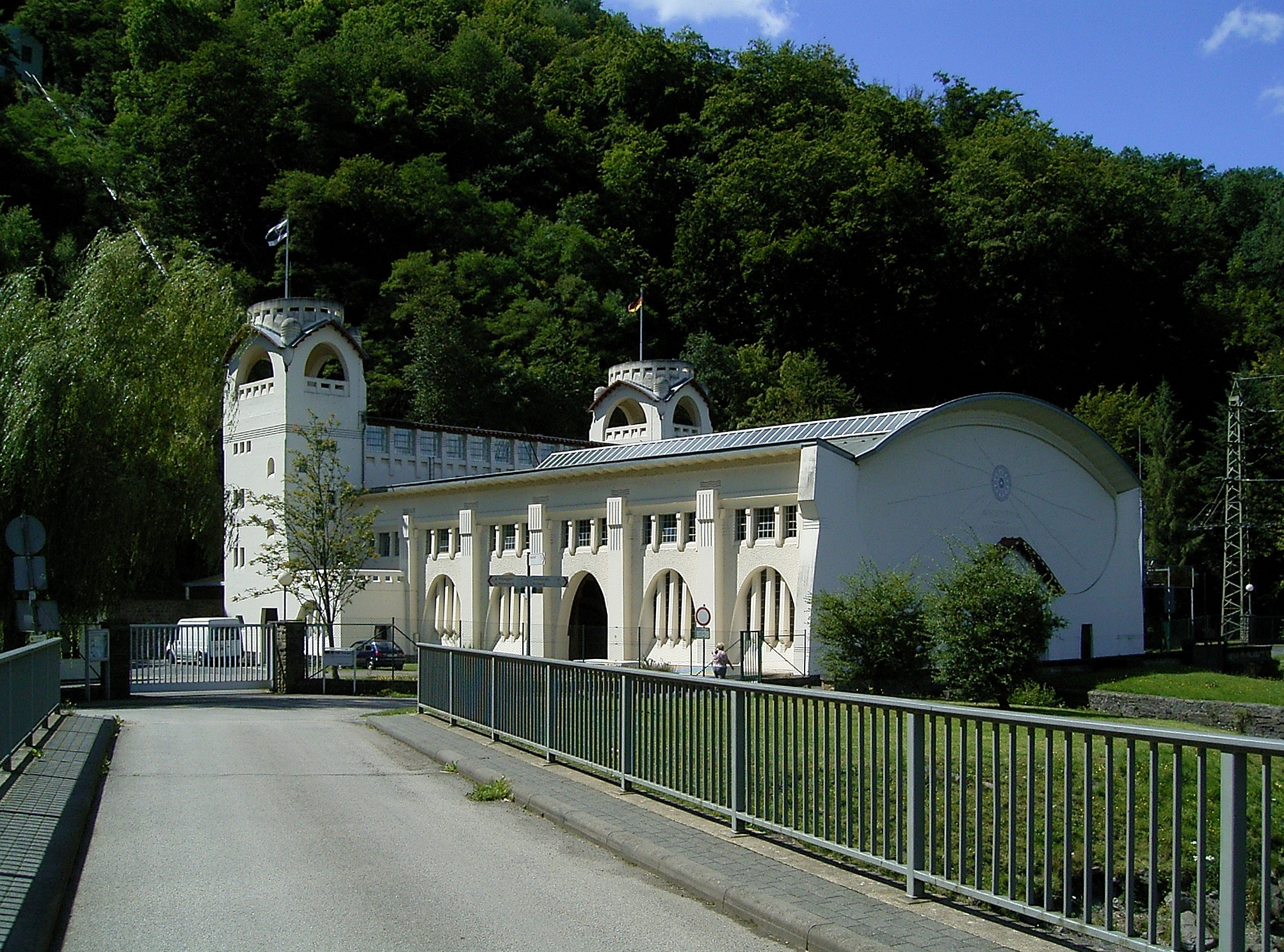 Art Nouveau power plant in Heimbach, Germany